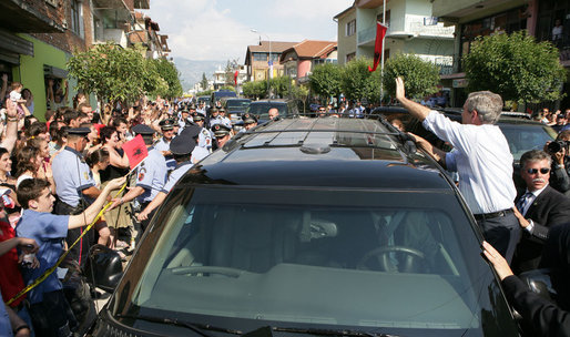 Description from source website: President George W. Bush waves to townspeople of Fushe Kruje, Albania, Sunday, June 10, 2007, as they turned out to welcome the first visit by a U.S. president to their country. White House photo by Eric Draper